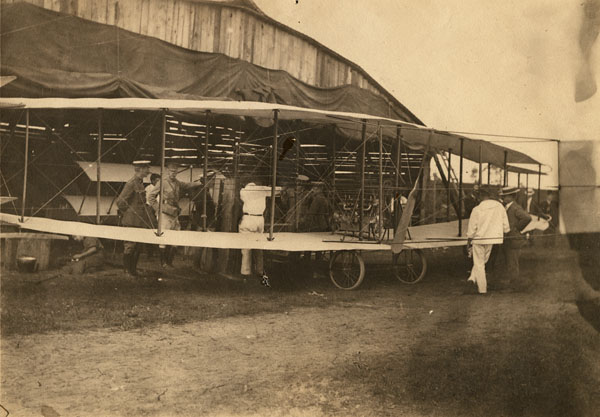 The Baddeck No.1 outside hangar.